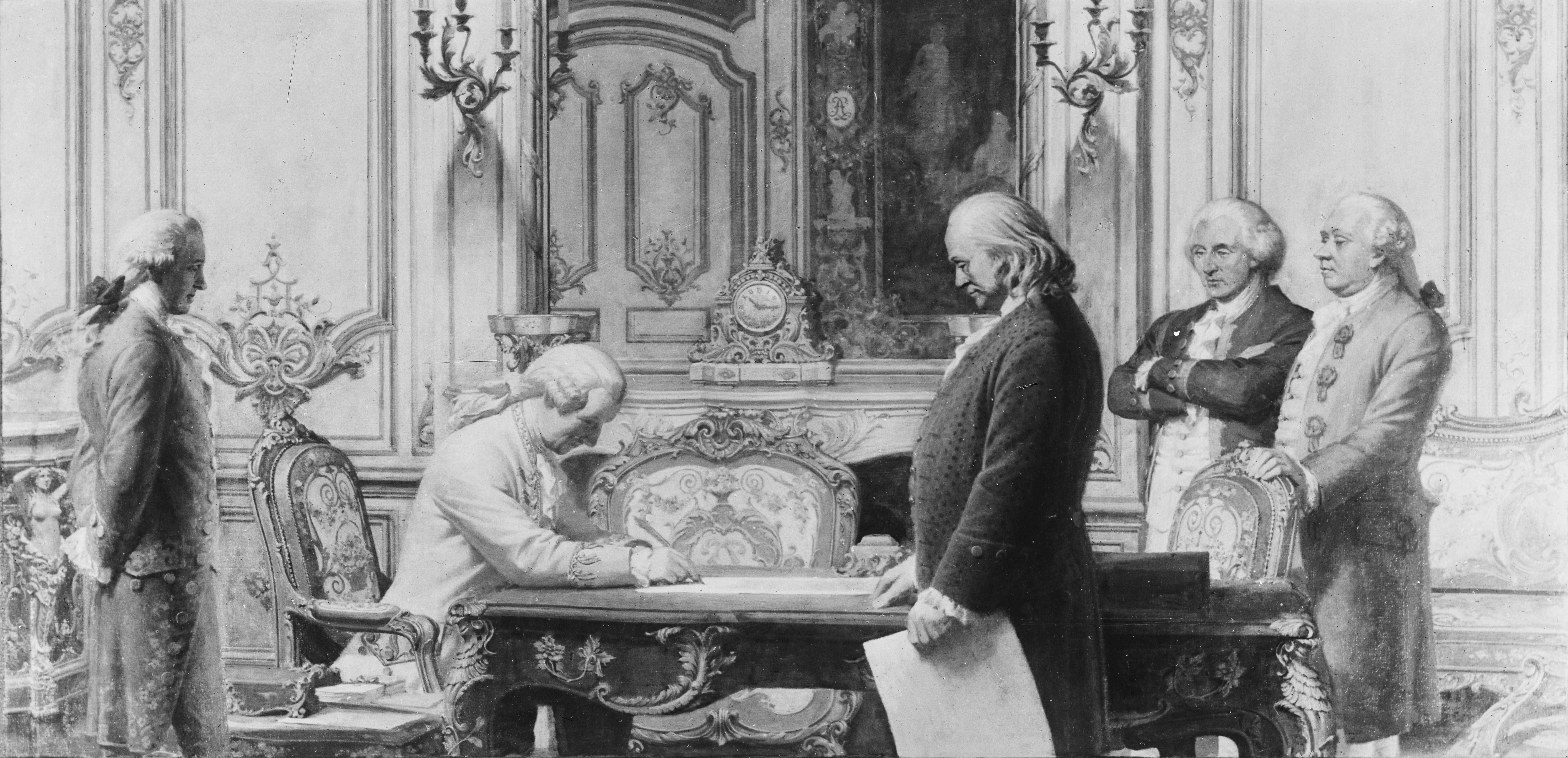 A reproduction of a painting depicting of the signing of the two treaties. It was commissioned for the lobby of the Franklin Union Building.[1] In the center is seated Mons. Conrad Alexander Gerard de Royneval, with Benjamin Franklin holding a paper. To the right, Arthur Lee has his arms folded and Silas Deane has his on a chair. At the left is Franklin's grandson, William Temple Franklin.[2]